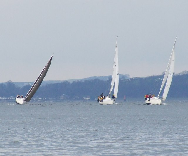 Yachts off Inverkip The yachts are on the last stretch of a race before returning to the nearby Kip Marina. Innellan is visible in the distance across the Firth of Clyde.